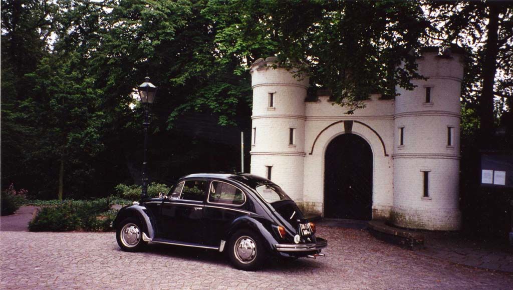 Volkswagen 1300 1969 in Vught the Netherlands